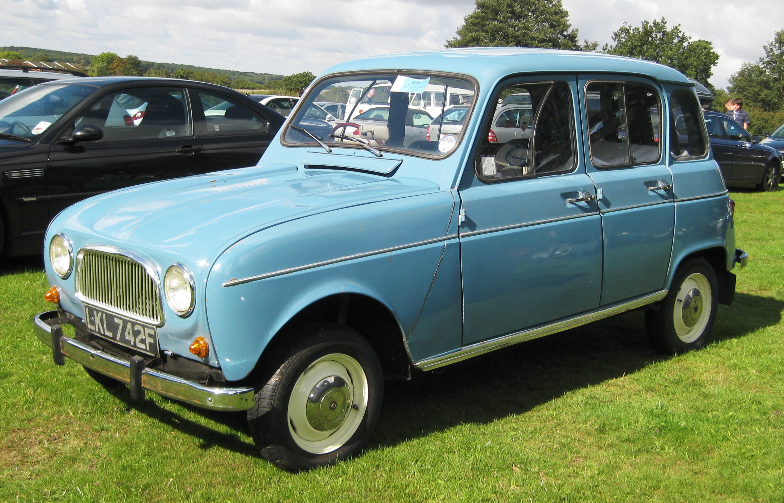 Renault 4 with the original grill design